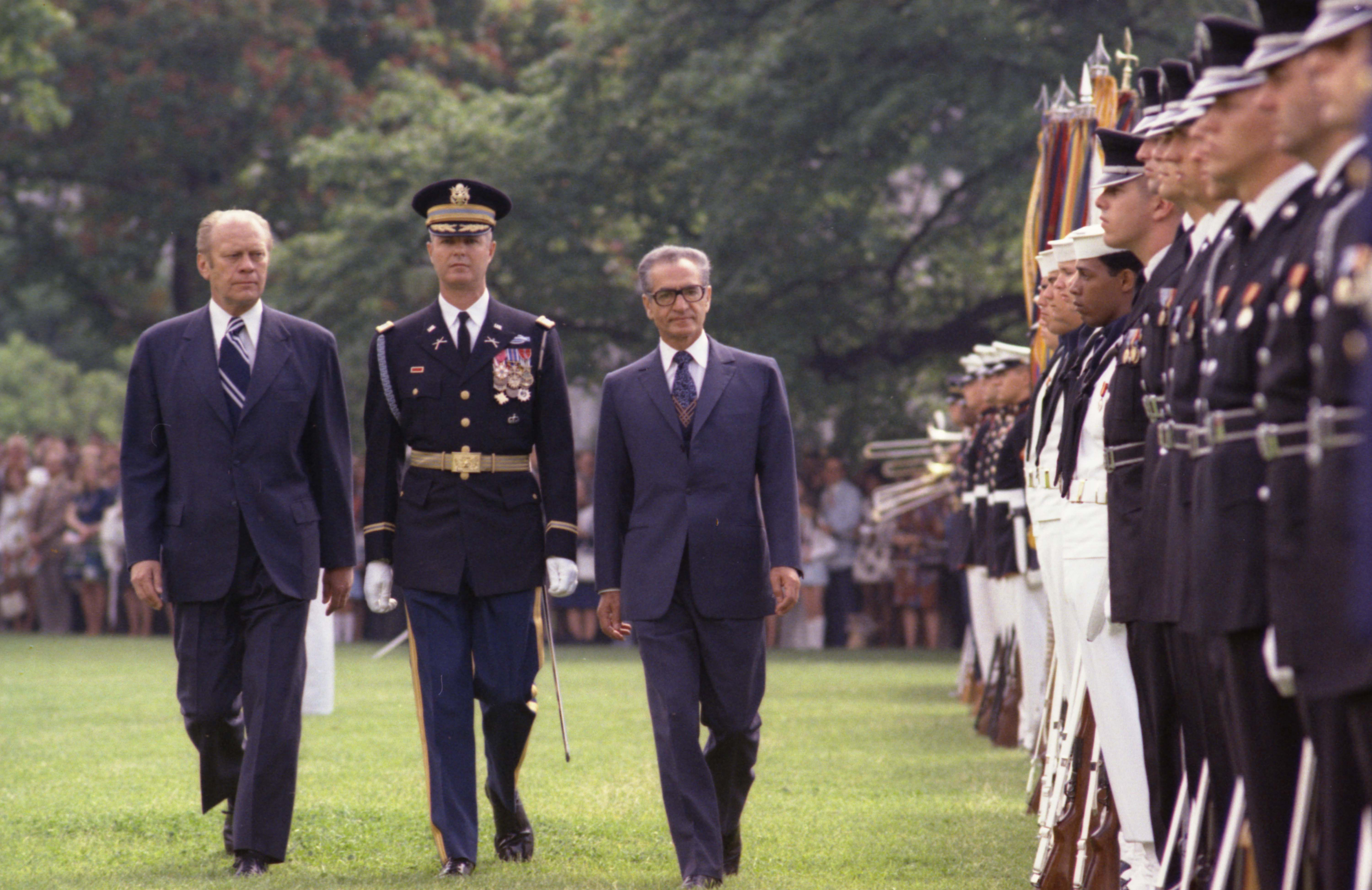 Photograph of President Gerald R. Ford and Shah Mohammad Reza Pahlavi of Iran Reviewing Troops on the South Lawn